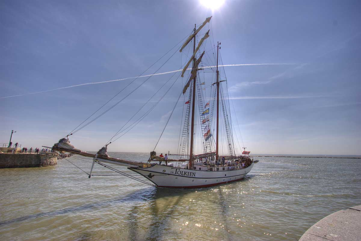 Dutch topsail schooner J. R. Tolkien in Ramsgate, England "Race of Classics arriving at the Port Of Ramsgate England Thursday 19th April 2007. A Little HDR work because of the sun position." (description from flickr)